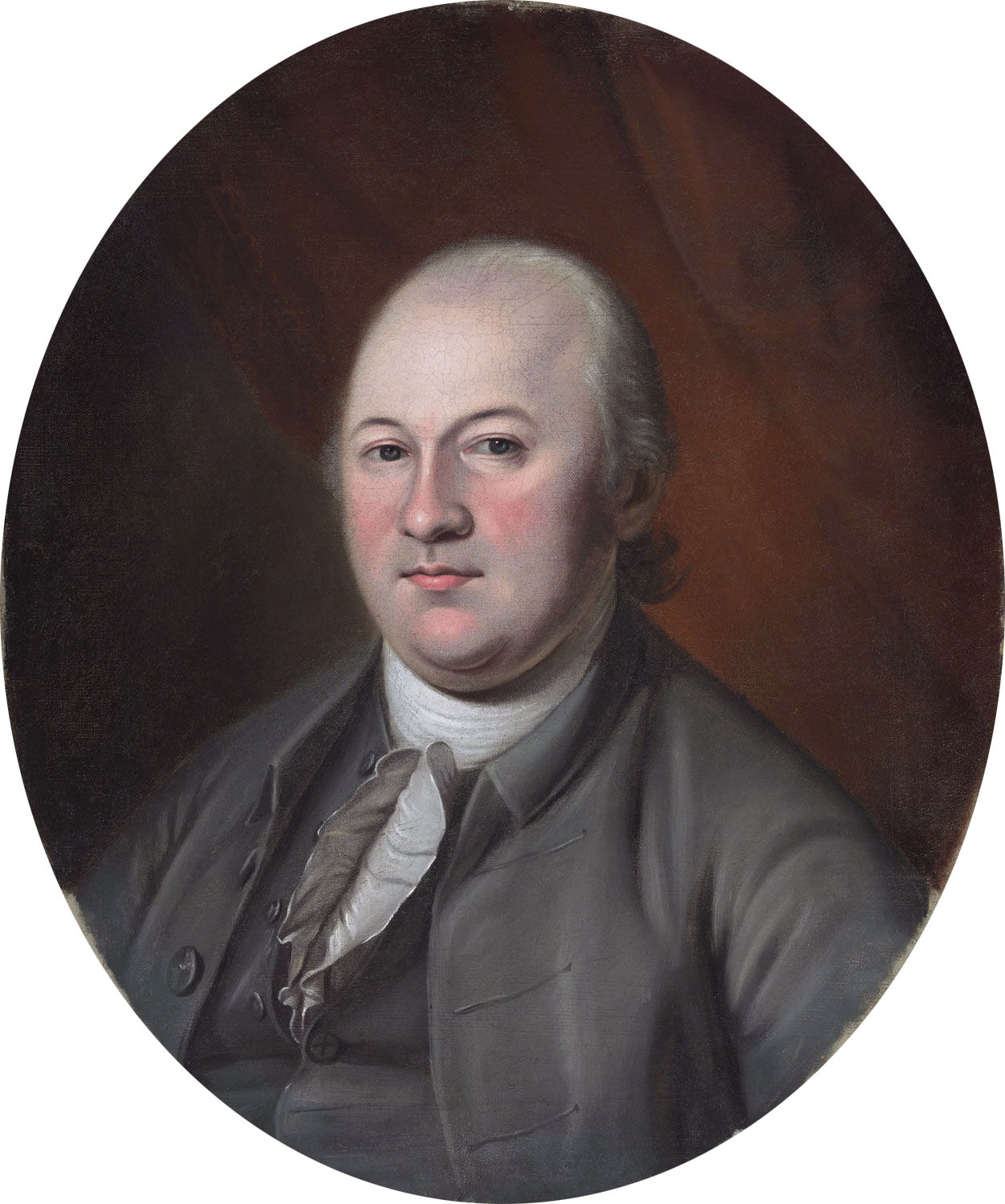 Thomas Wharton (1735 - 1778) oil on canvas 59.2 x 49.8 cm